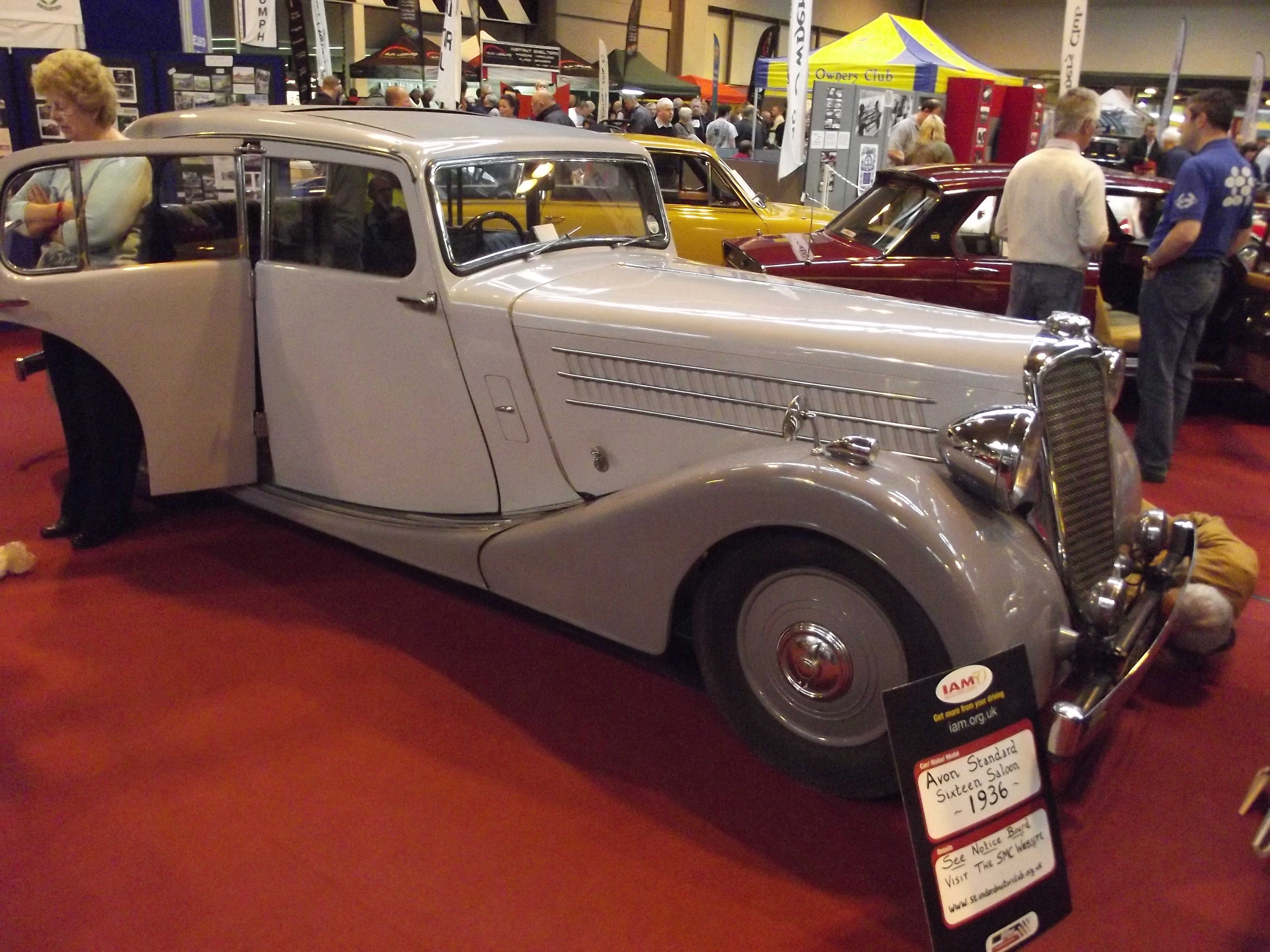 1936 Avon Waymaker saloon on a Standard Sixteen chassis Birmingham NEC Classic